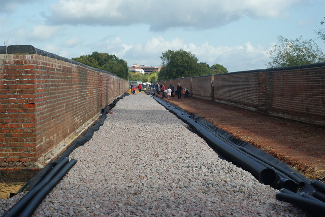 Imberhorne Viaduct, East Grinstead Looking back across the viaduct, towards East Grinstead station. Repairs have been made to the brickwork of the viaduct, with waterproof membrane and ballast laid about half way across. The parapets are at least seven feet high.